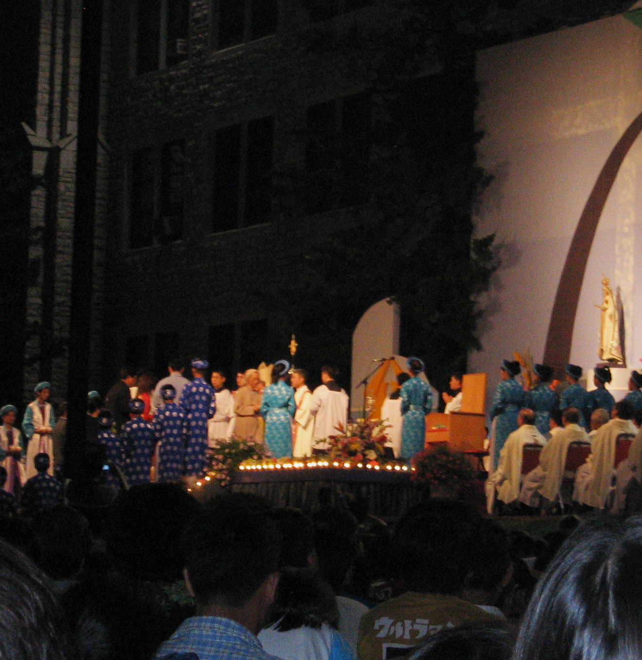 A Roman Catholic mass in progress during the Vietnamese American Roman Catholic festival, Marian Days.